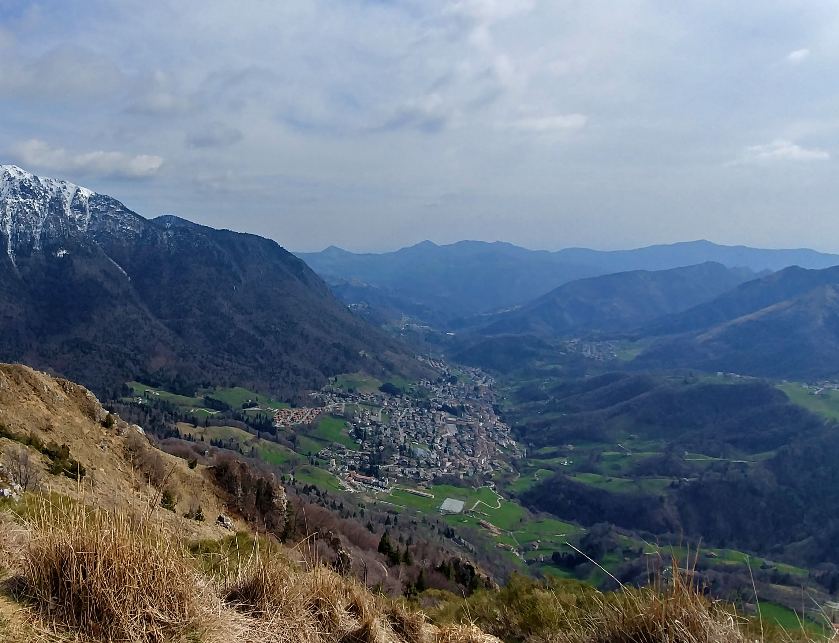 Serina valley seen from mount Castello